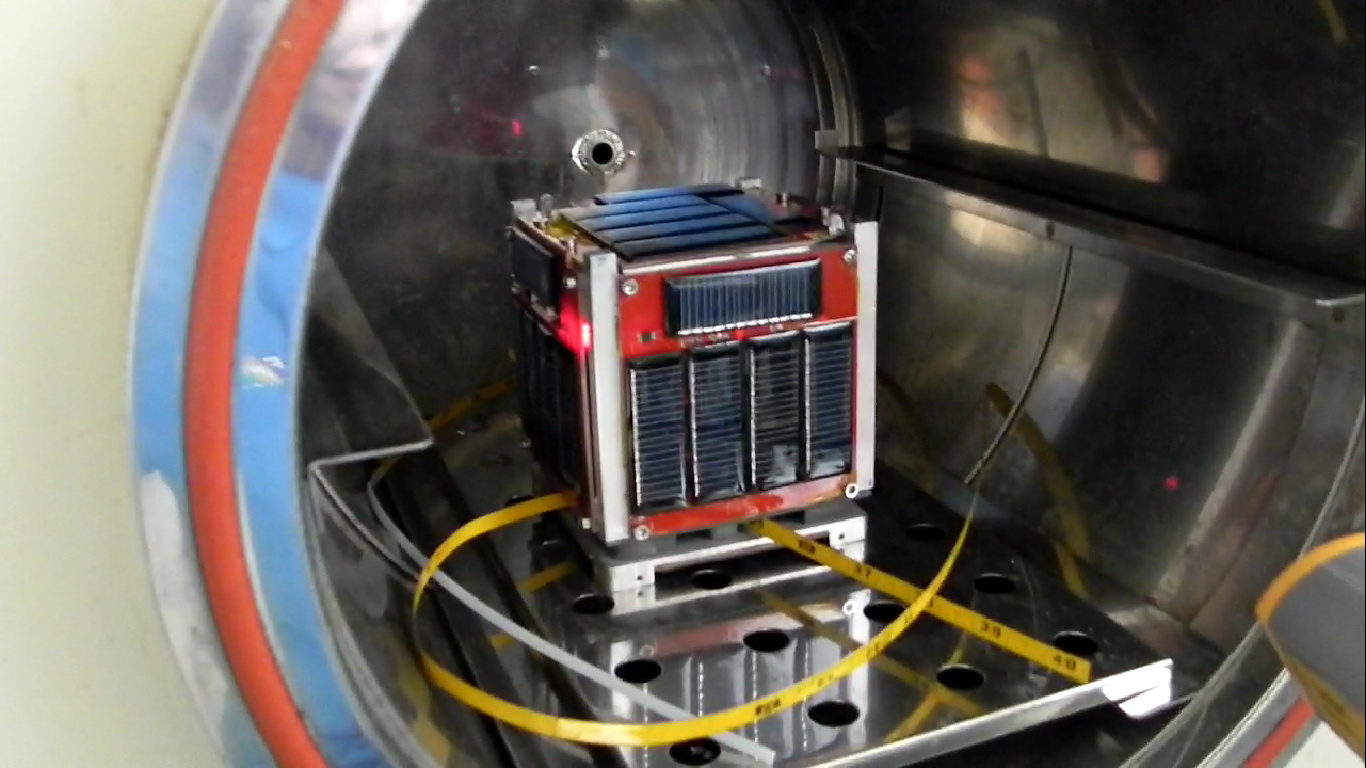 F-1 CubeSat thermal vacuum test